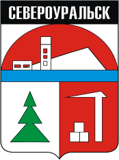 Severouralsk (Sverdlovsk oblast), coat of arms (1979)